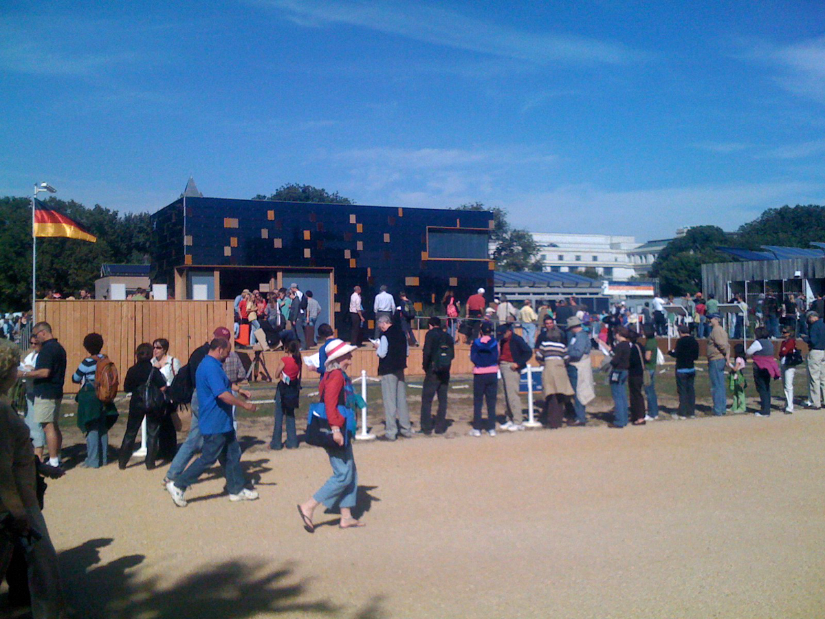 surPLUShome of Team Germany in Solar Decathlon 2009